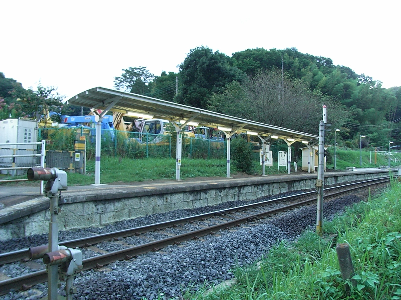 Taki Station on JR Karasuyama Line (163 Taki, Nasukarasuyama City, Tochigi Prefecture, Japan)